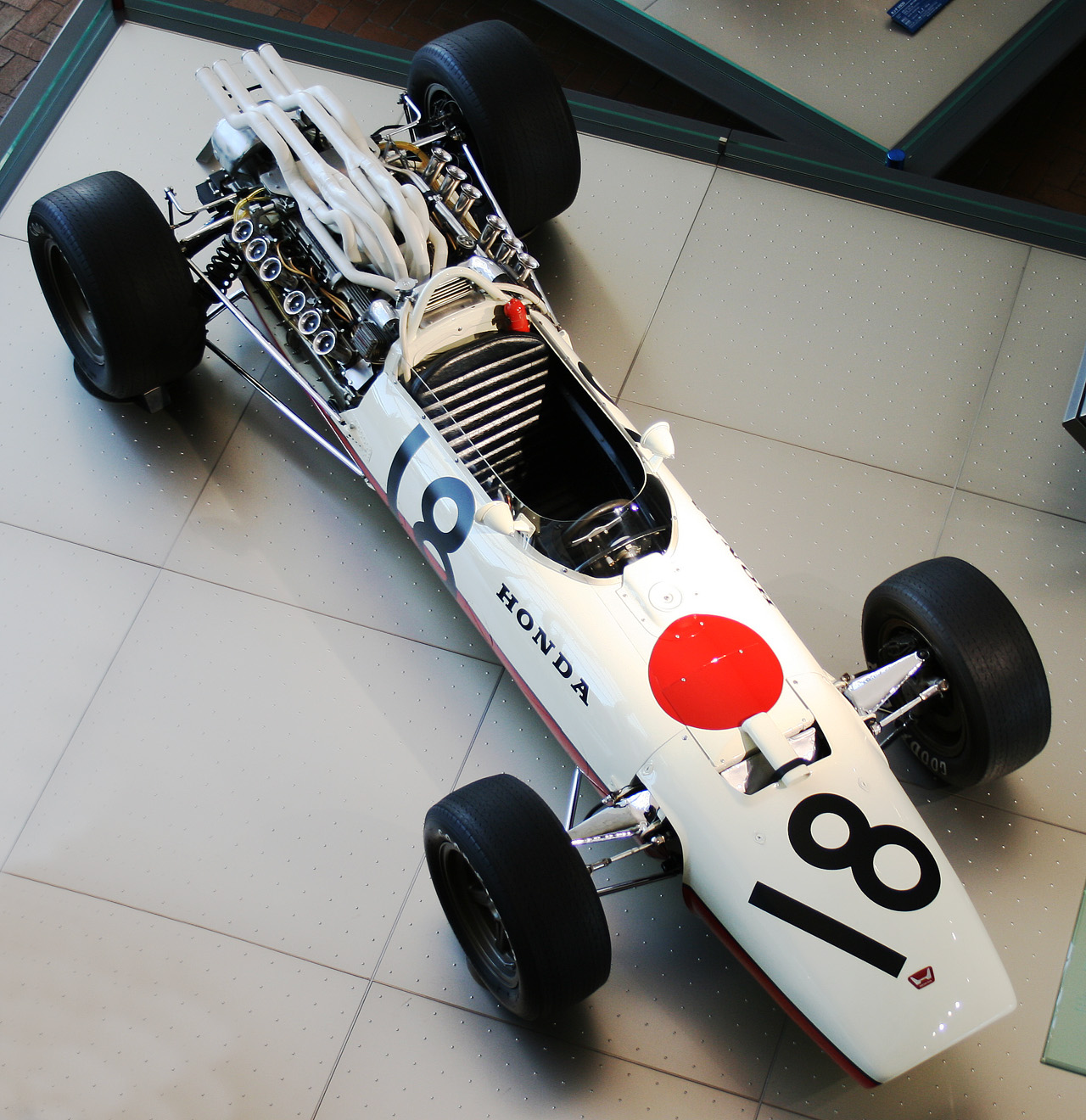 Honda RA273 (#18 Richie Ginther) 1966 Italian Grand Prix version